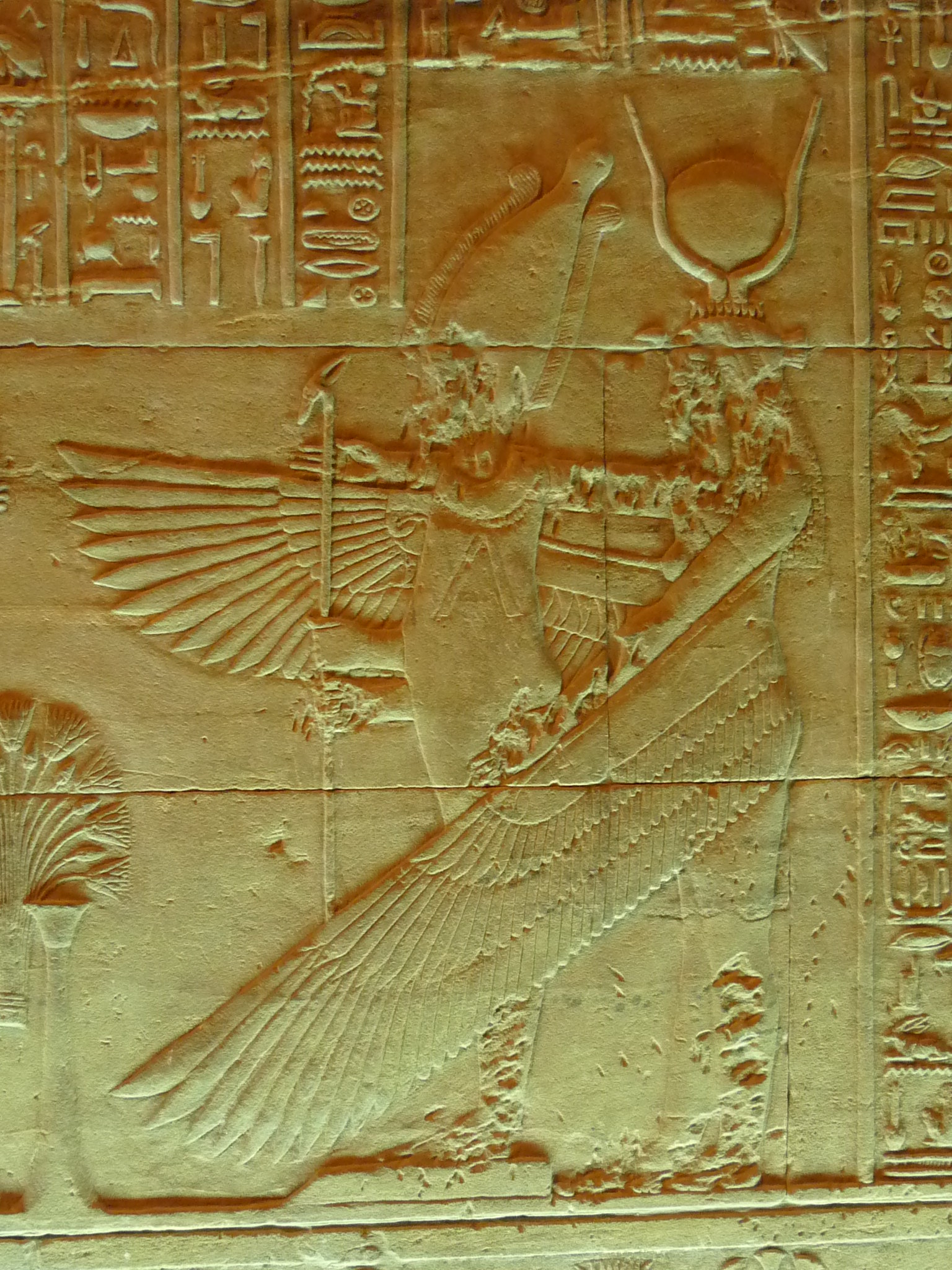 Osiris Ounnefer and winged Isis in naos, Isis Temple, Philae Island, Egypt